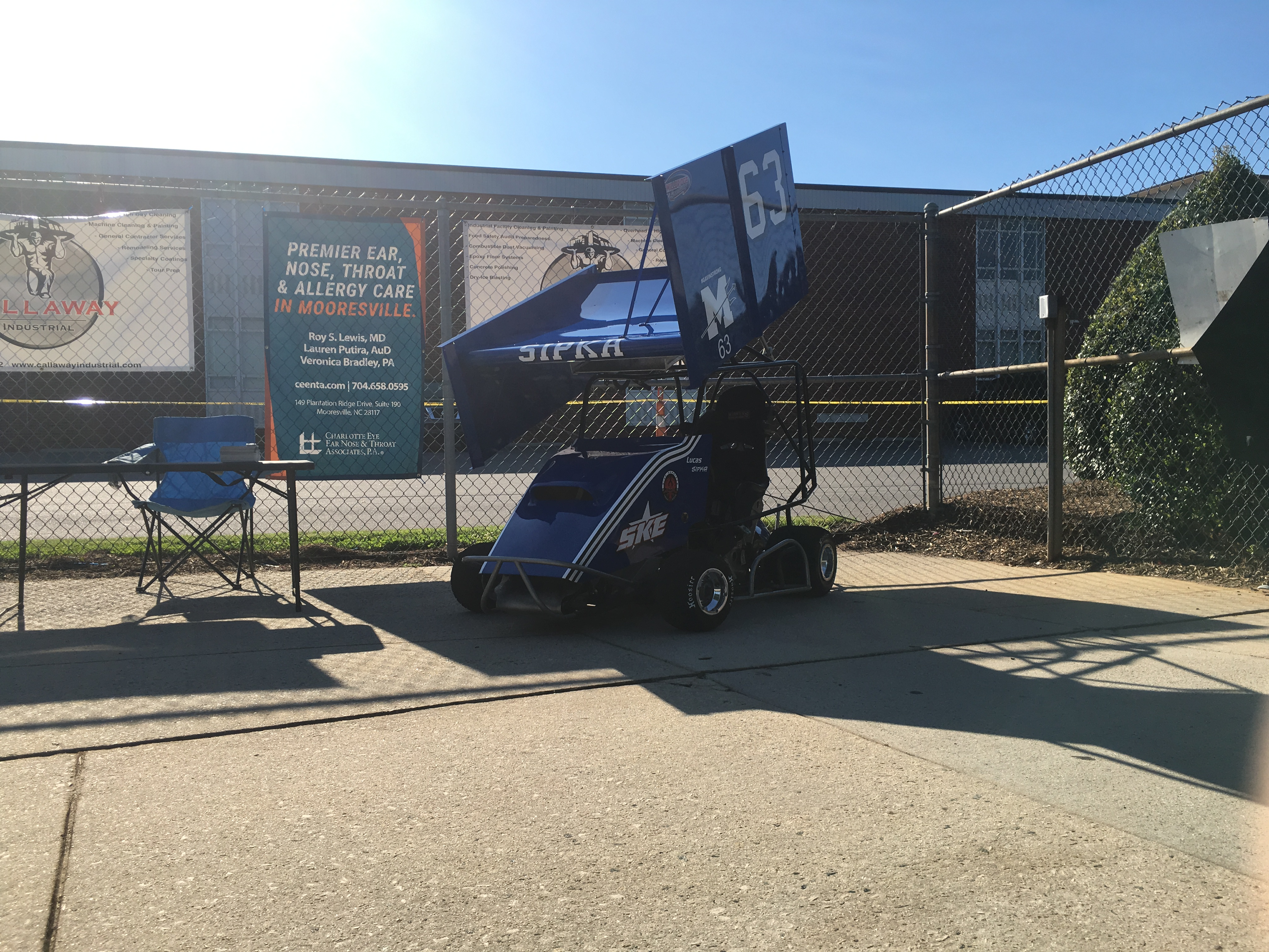 500cc outlaw kart